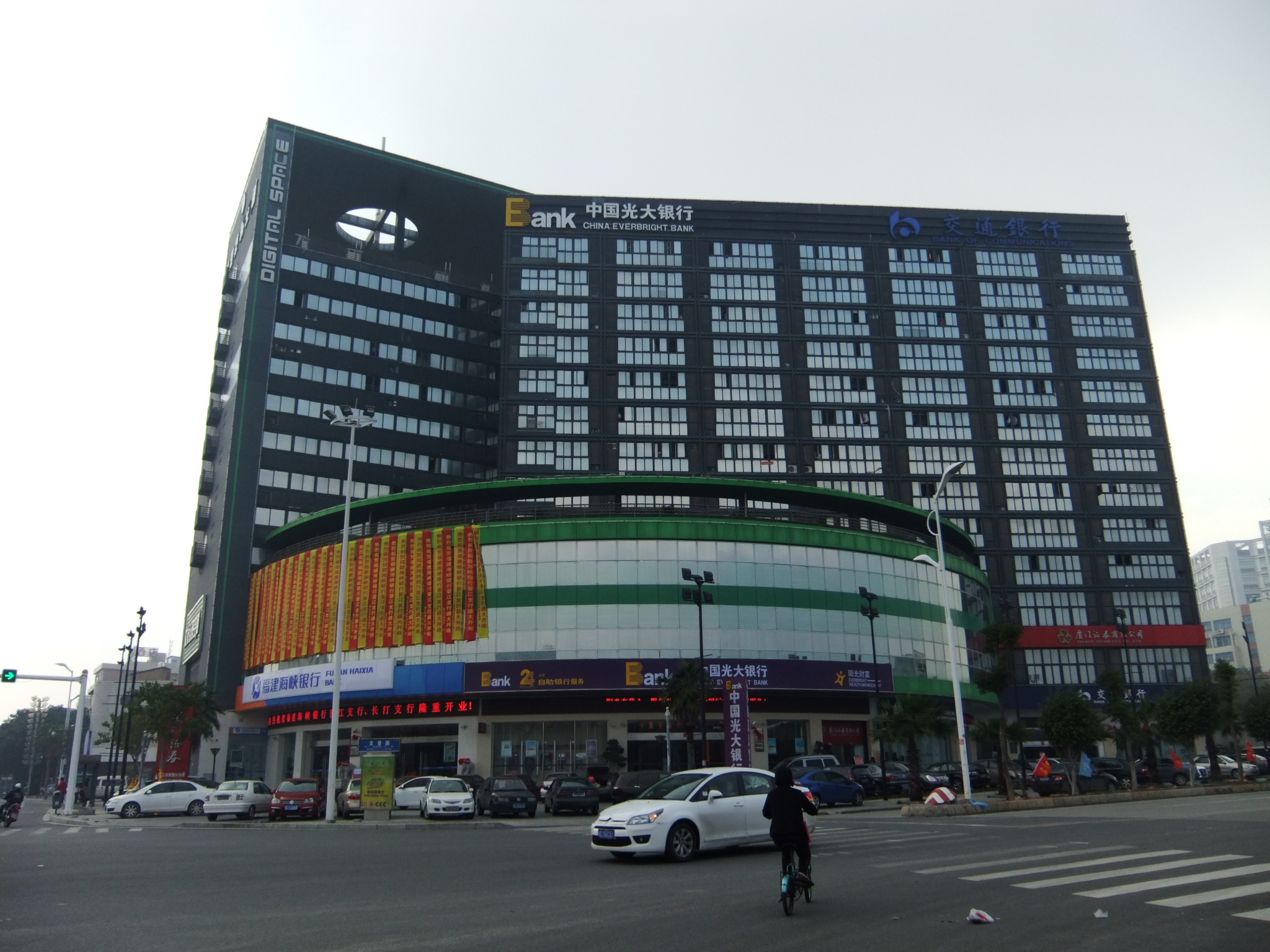 Jinjiang CIty.